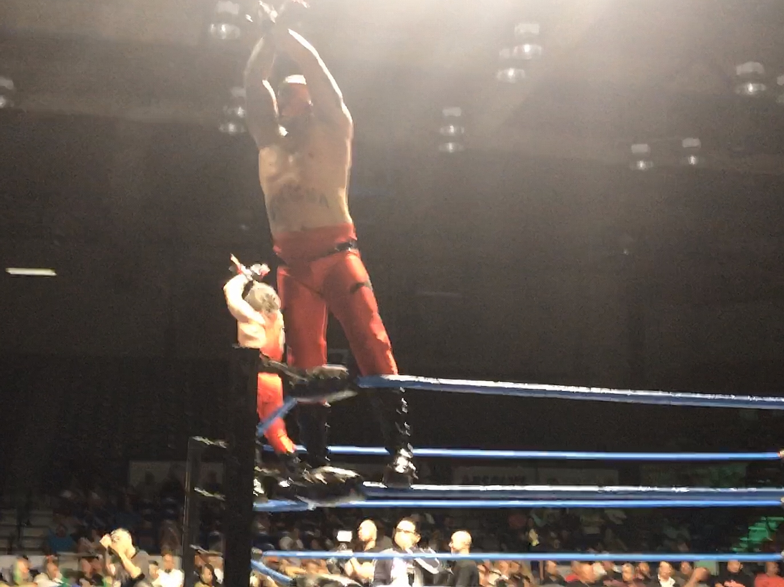 Thunder and Lightning performing their characteristic pose at the World Wrestling Council's Aniversario 2018 event.